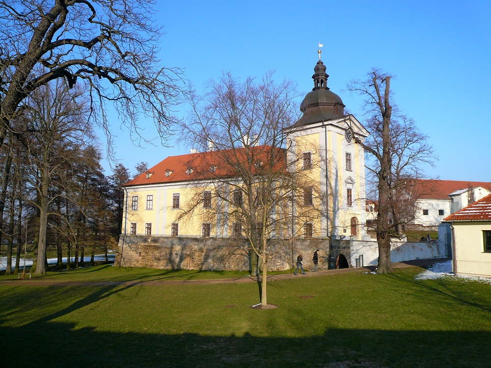 Zámek Ctěnice, pohled od severu